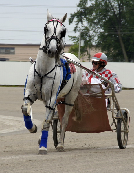 A Standardbred warms up for a Harness Racing horse race at Raceway Park in Toledo, Ohio